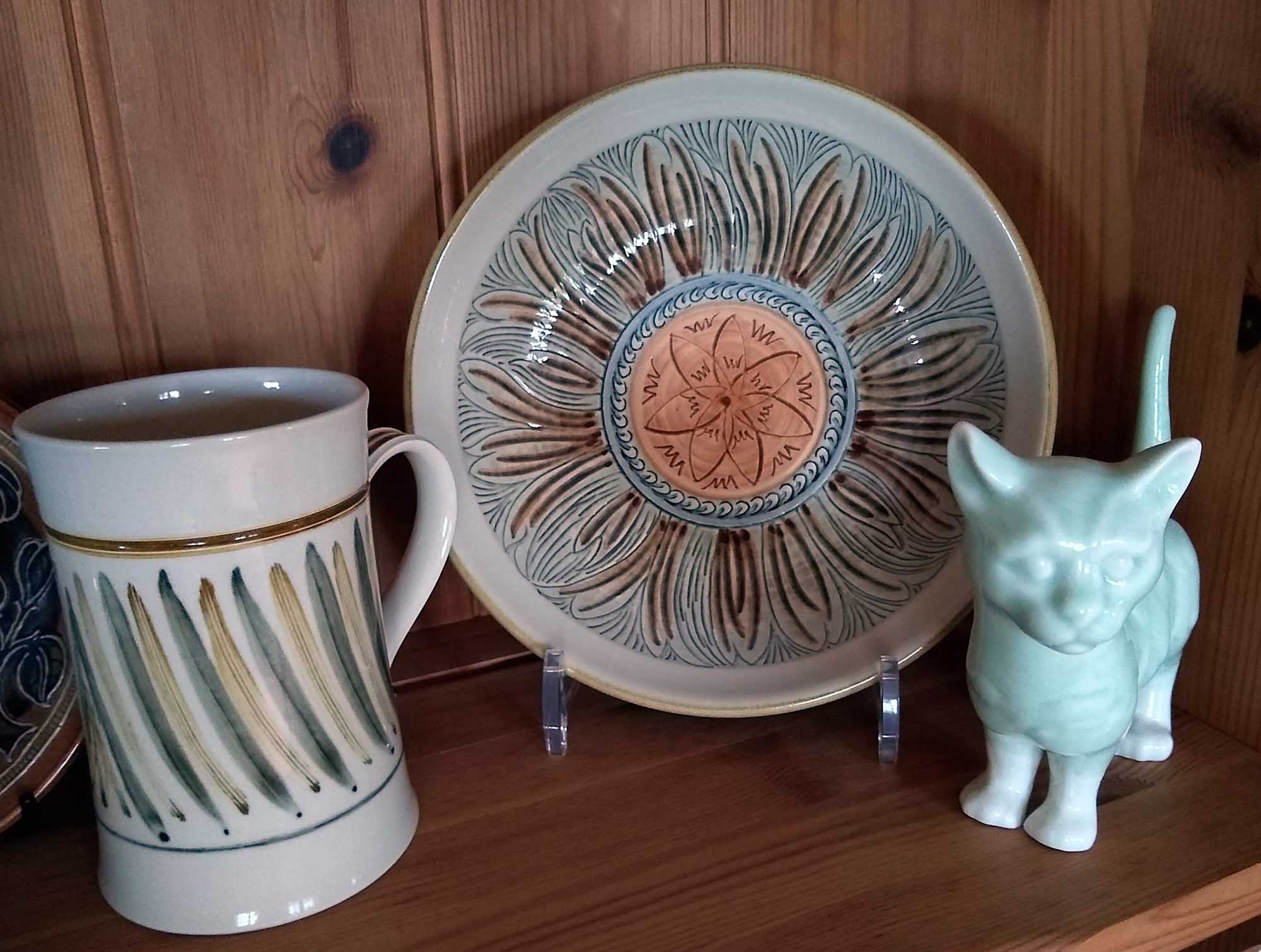 Left to right: Doulton Lambeth mug 1952-56, Doulton bowl 1952-56, and Doulton cat (2015) based on Agnete Hoy's model of her cat Pushkin, in 1956.